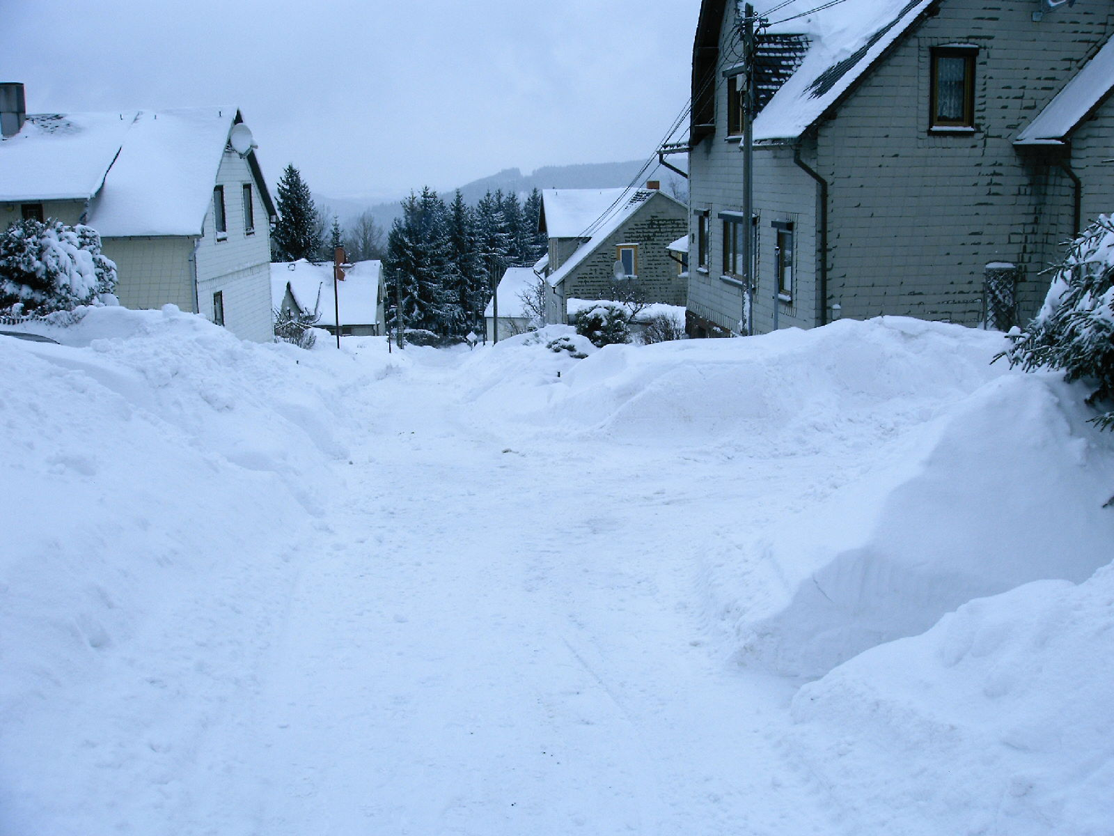 Waldstraße Gehlberg in winter